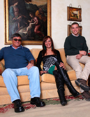 José Cid, a sua filha Ana Sofia Cid e o seu neto Francisco.